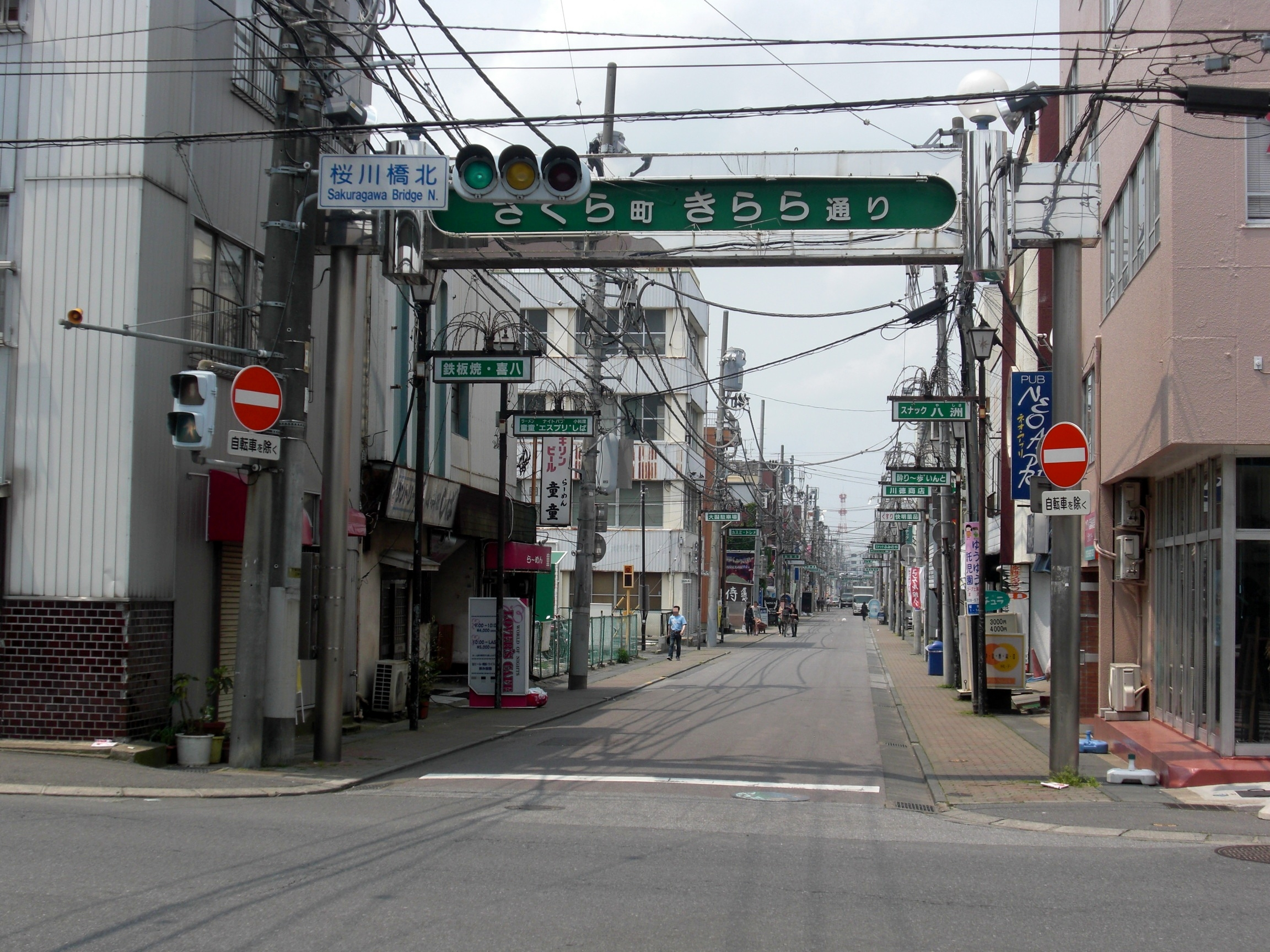 This is an entrance of Kirara street in Tsuchiura, Ibaraki, Japan.